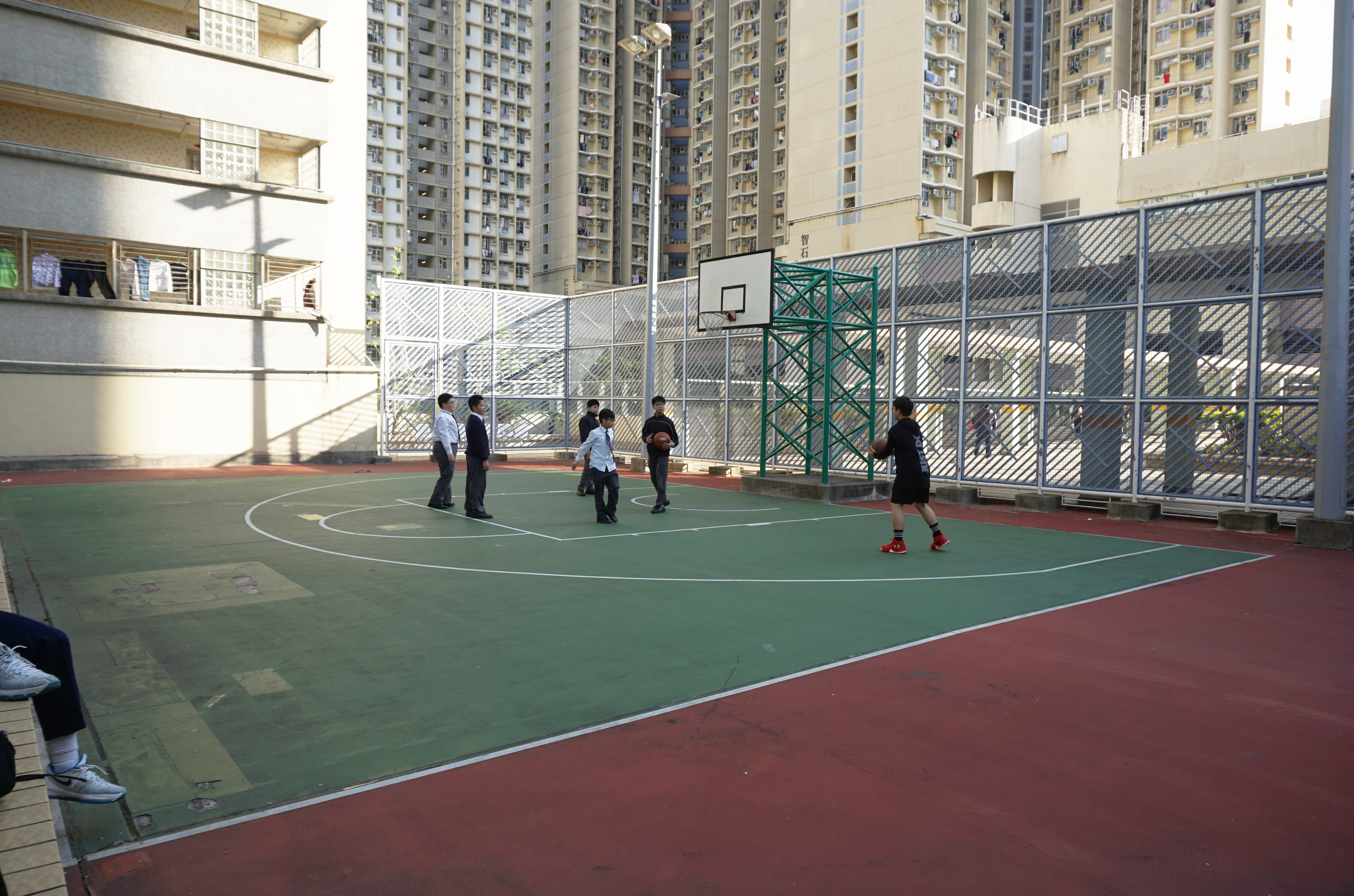 Shek Yam Estate in Shek Yam, Hong Kong.